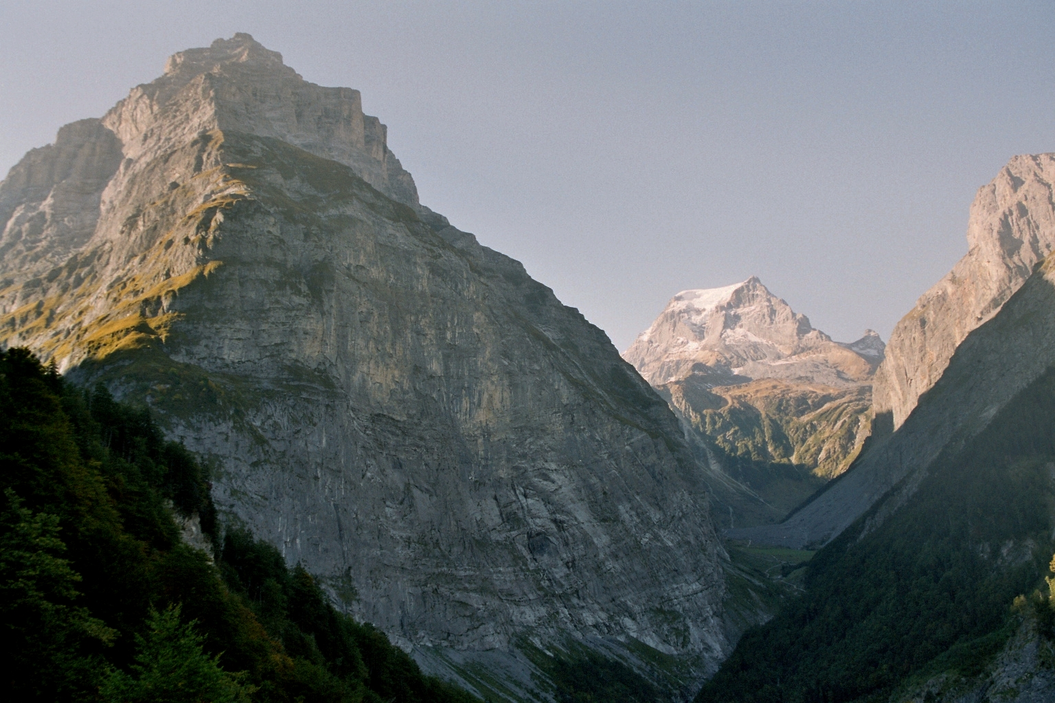 Tödi